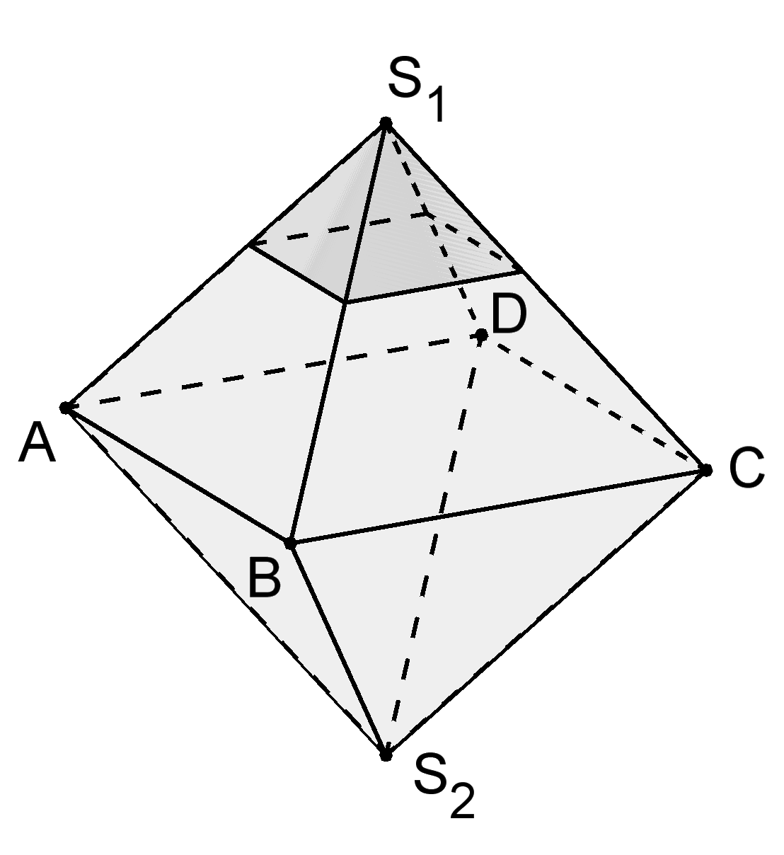 octahedron